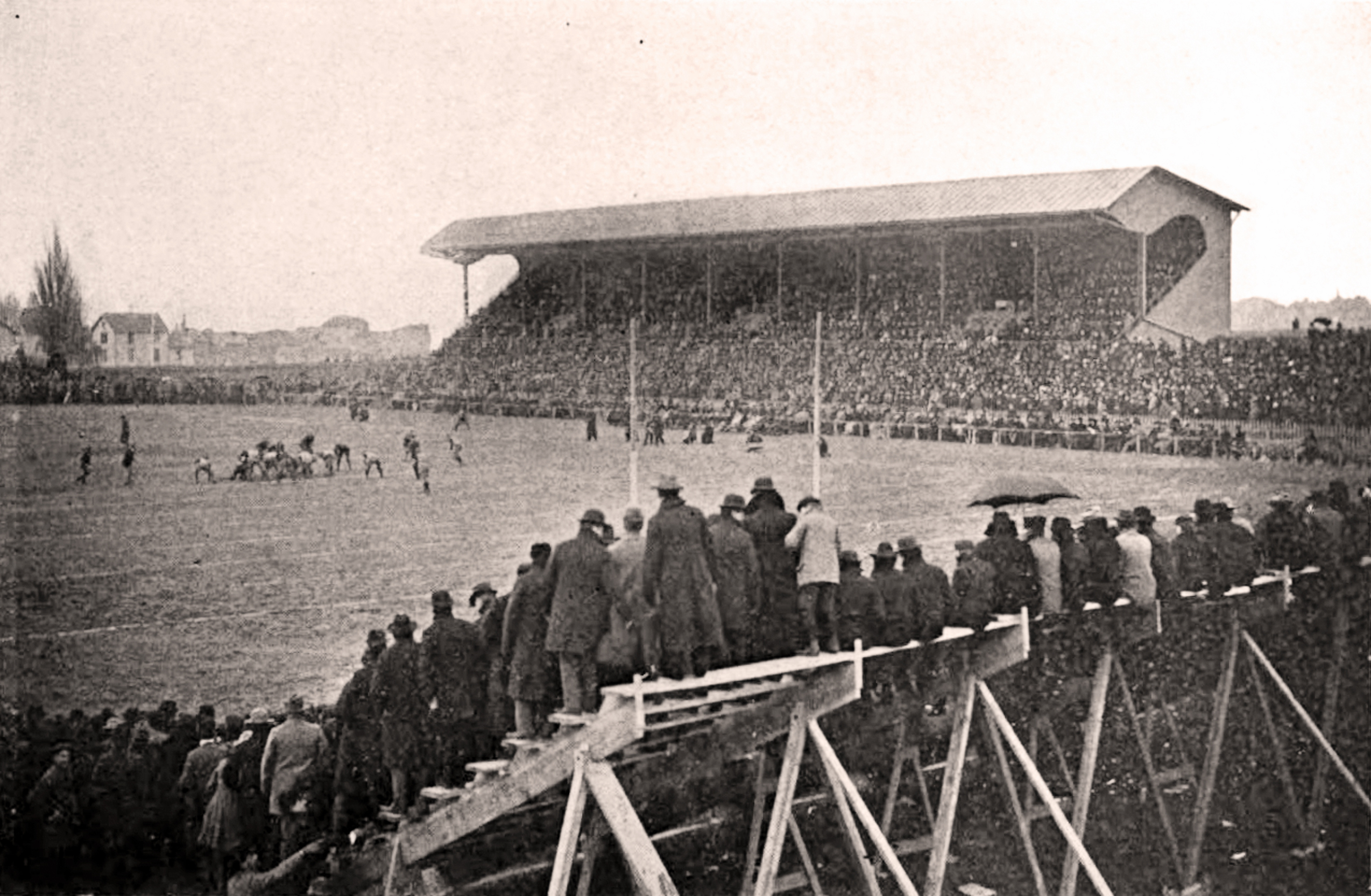 Randall Field, Wisconsin - Minnesota vs. Wisconsin, 1904.